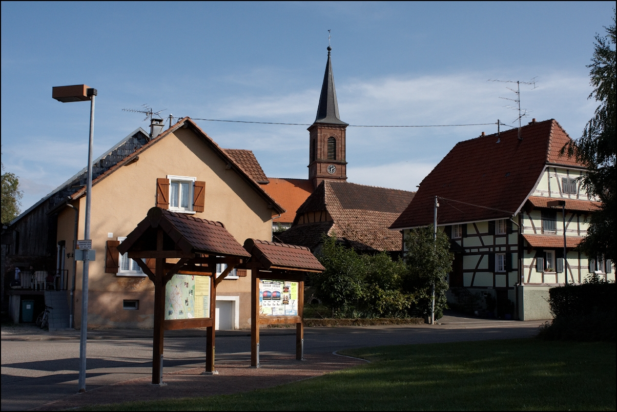 a view of Altenach, Alsace